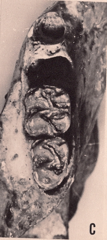 Jaw of the holotype of Megalomys audreyae (British Museum, Geology Department, nr. 7406a). Occlusal view of molar row.